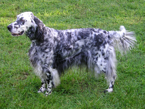 English Setter photo correctly named; replaces EnglishShepherd9_fx_wb.jpg and EnglishShepherd10_fx_wb.jpg. Dog won't stop wagging his tail! Photo by Elf